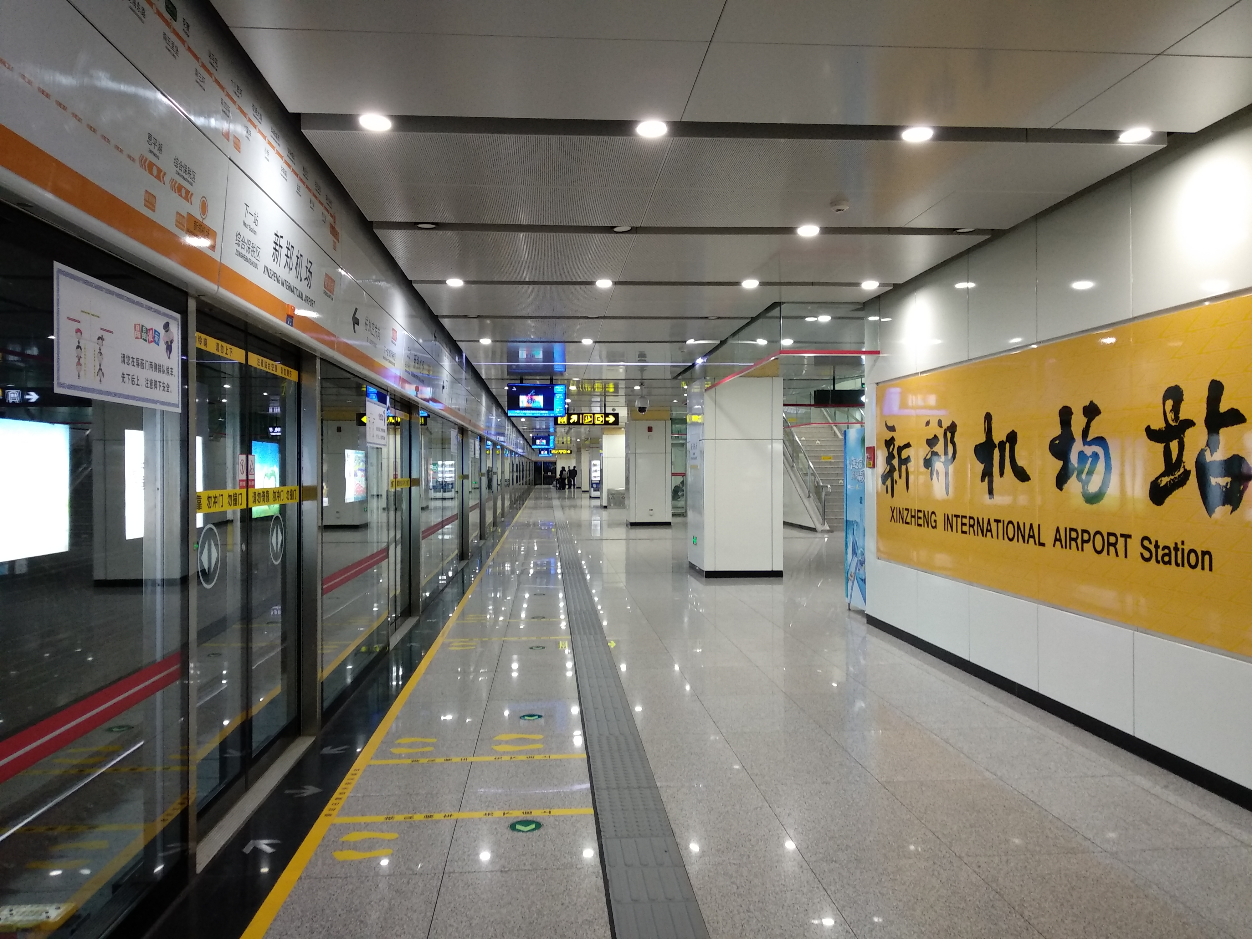 Located on the Terminal 2 of CGO, it's the southern terminus of 1st phase of Chengjiao (Suburban) Line, Zhengzhou Metro.